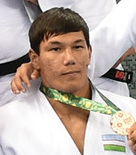 Judo at the 2017 Islamic Solidarity Games